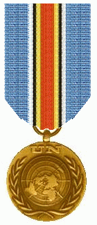 UNOTIL Medal of the UN